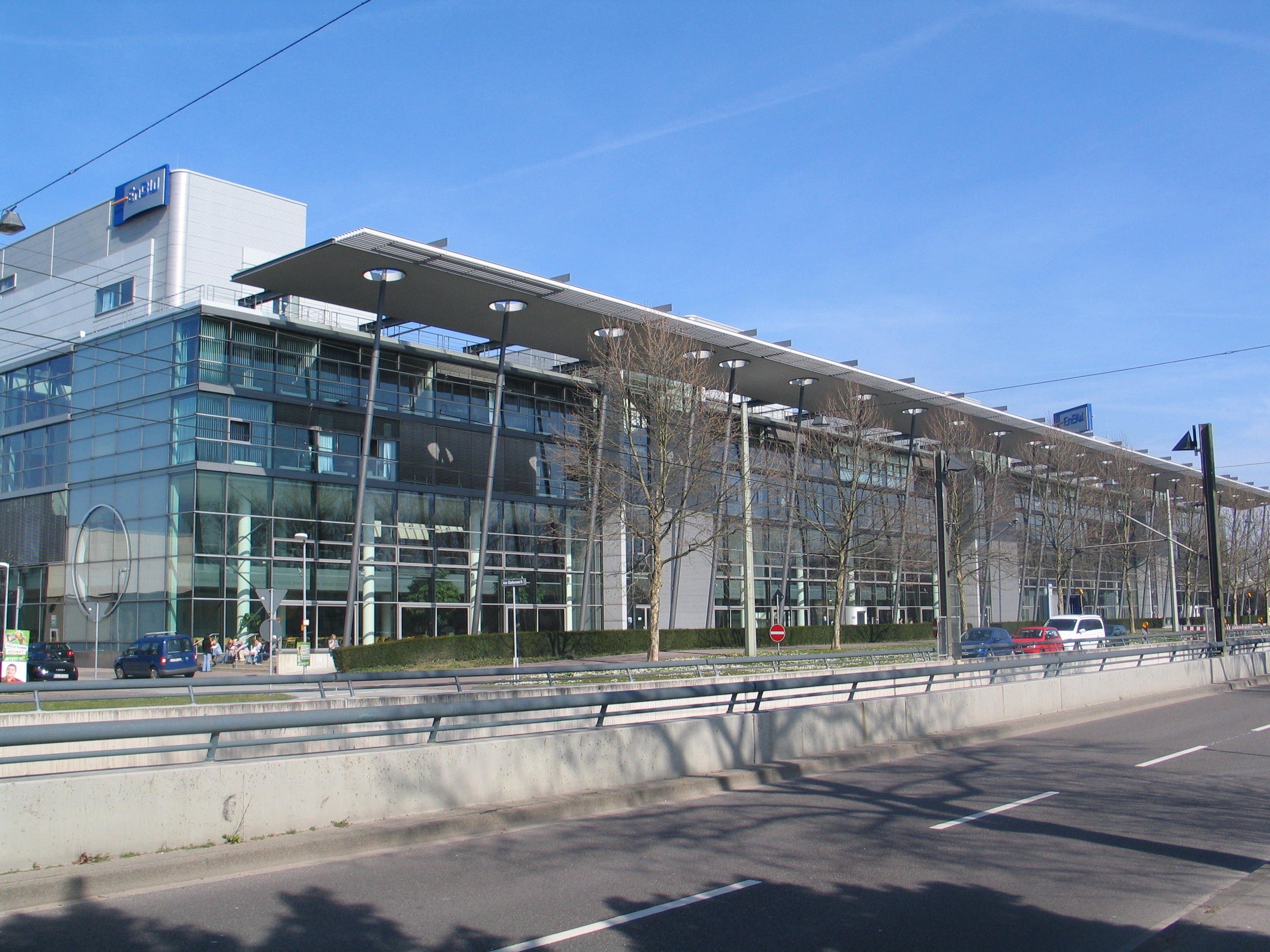 Headquarters of EnBW at Durlacher Allee in Karlsruhe, Germany